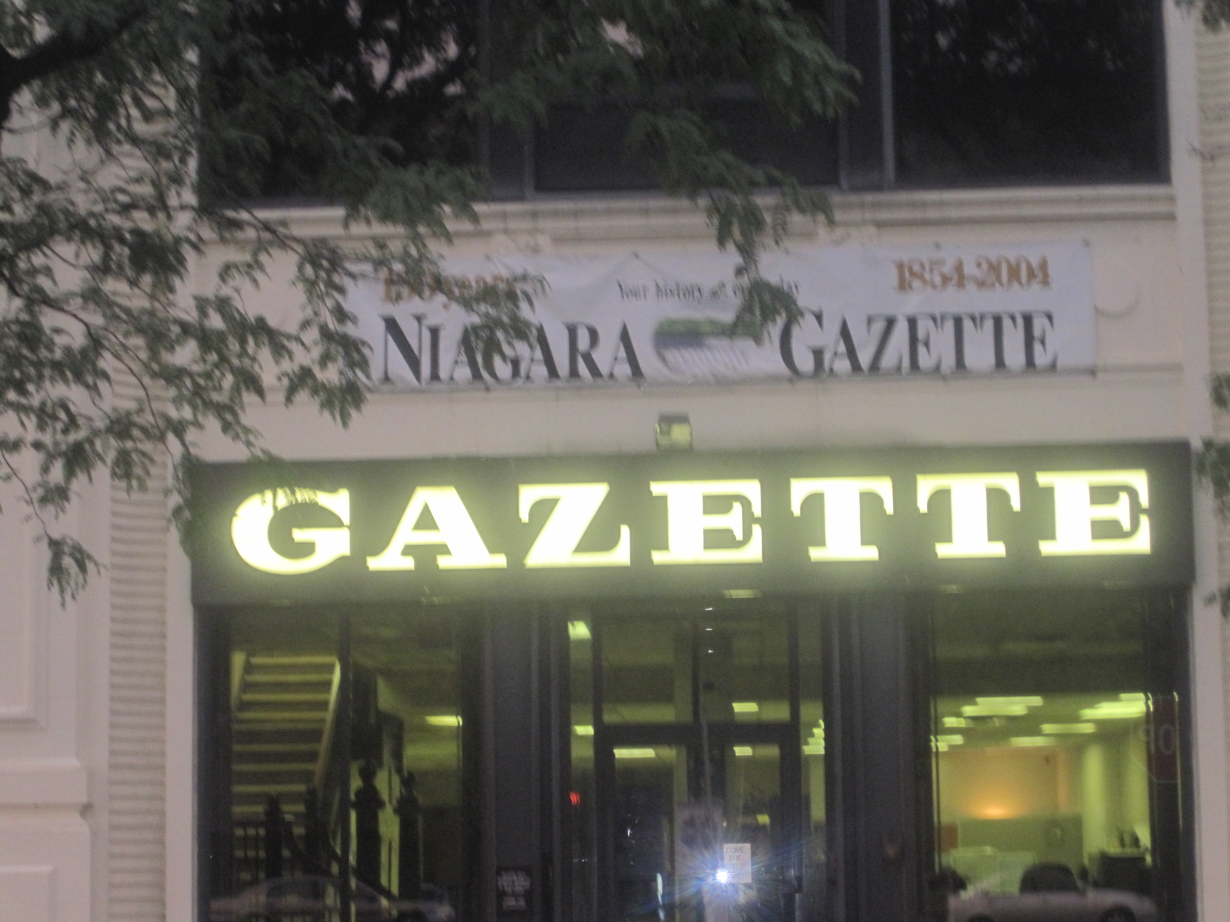 Niagara Falls Gazette newspaper office